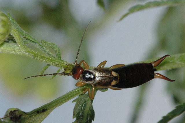 Picture taken in Commanster, Belgian High Ardennes . Species: Forficula auricularia